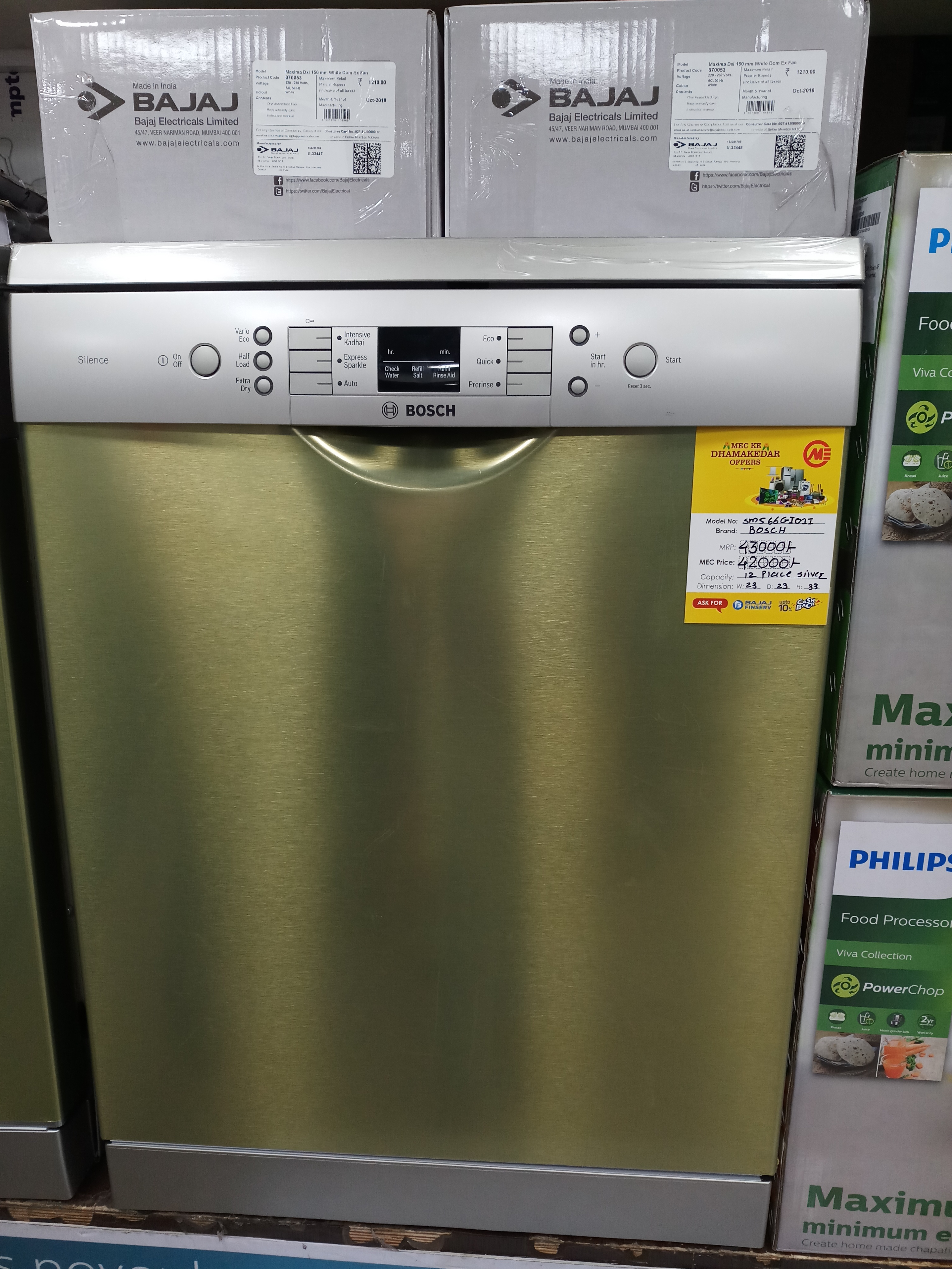 Dish Washer Machine